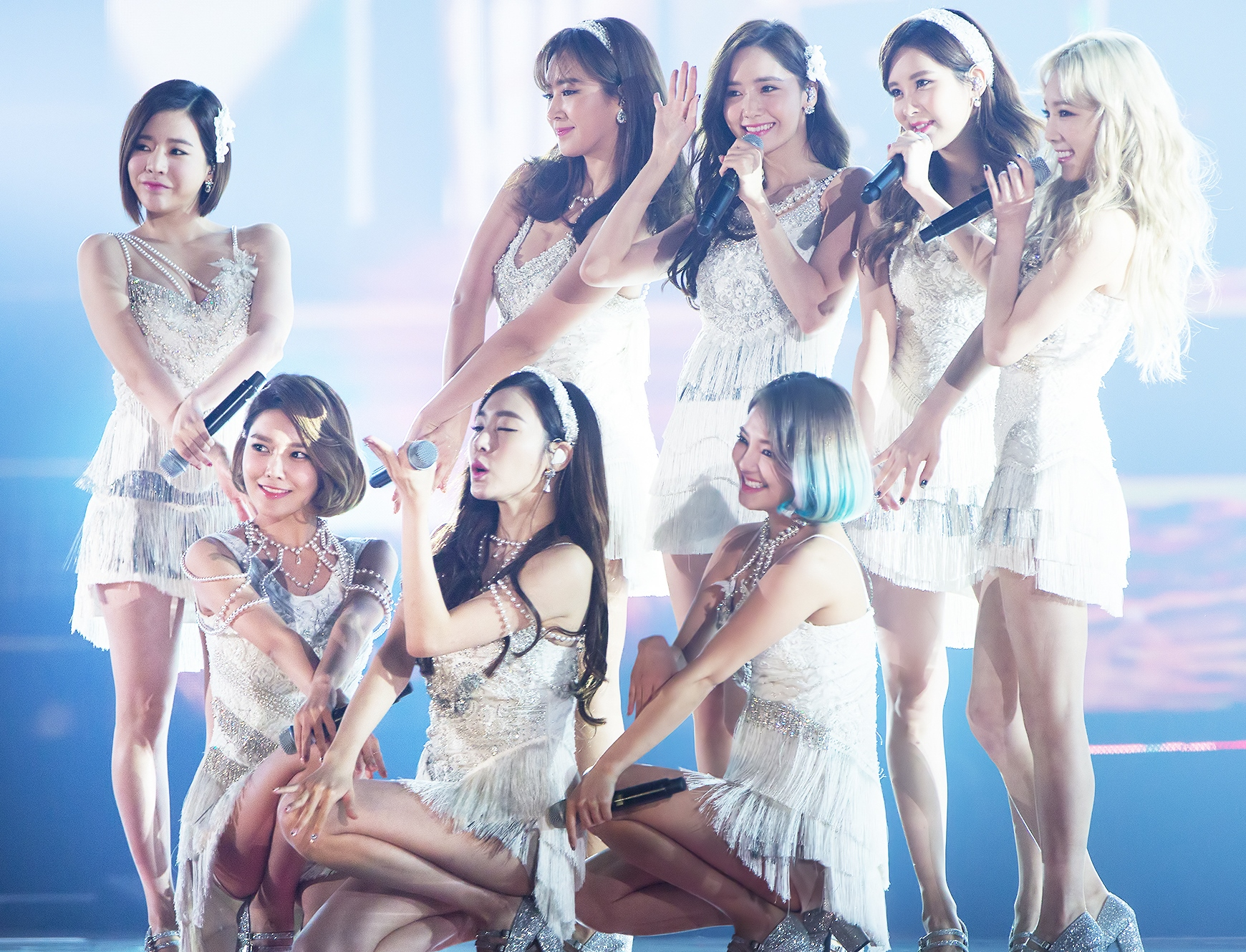 Girls' Generation at KBS Gayo Daechukje December 30, 2015.